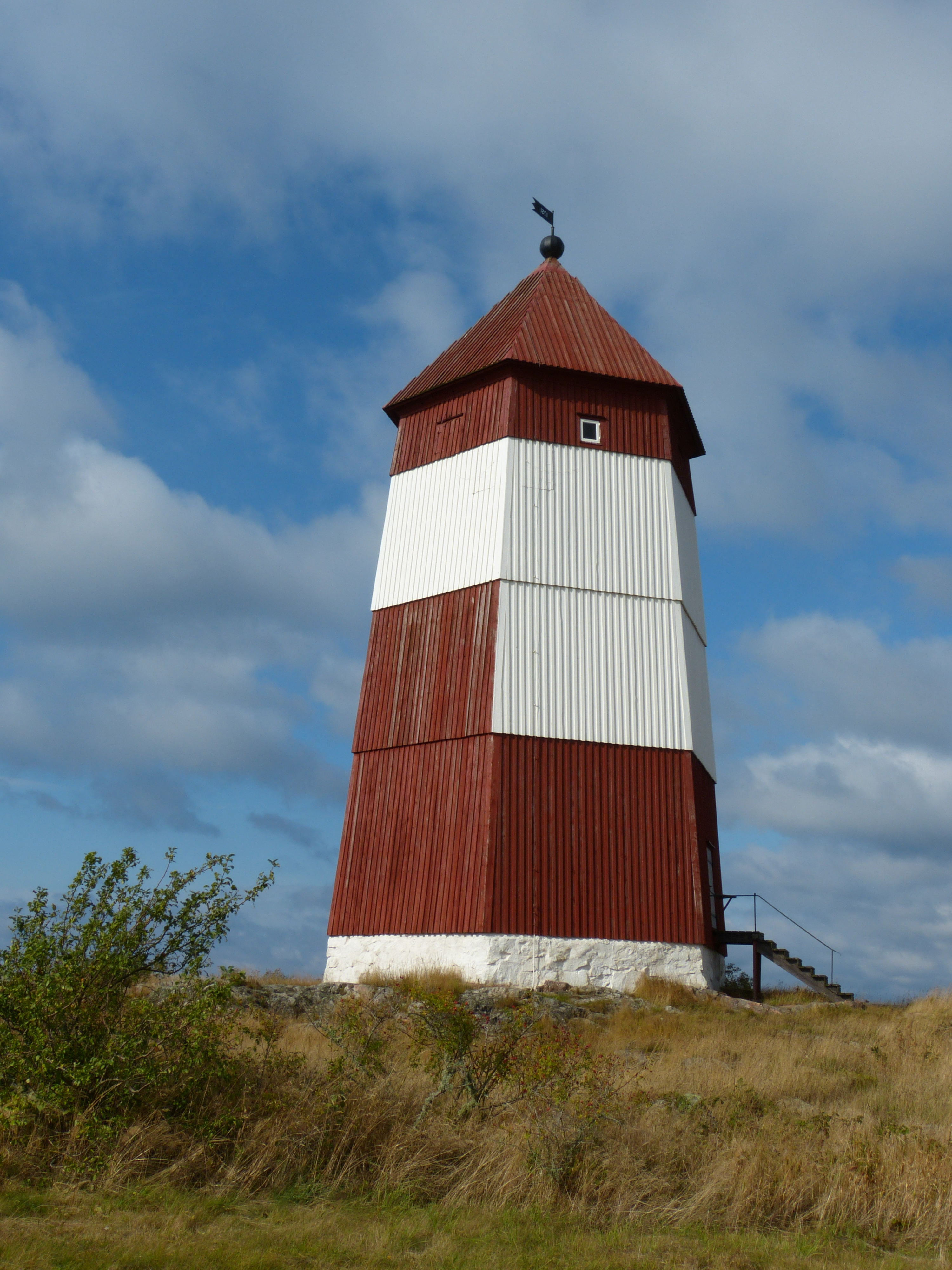 Picture of Häveringe beacon, Hävringe, Södermanland, Sweden